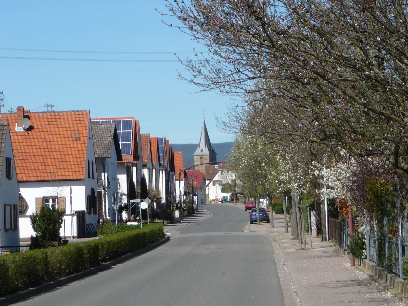 Kirrweiler in Rhineland-Palatinate, Germany